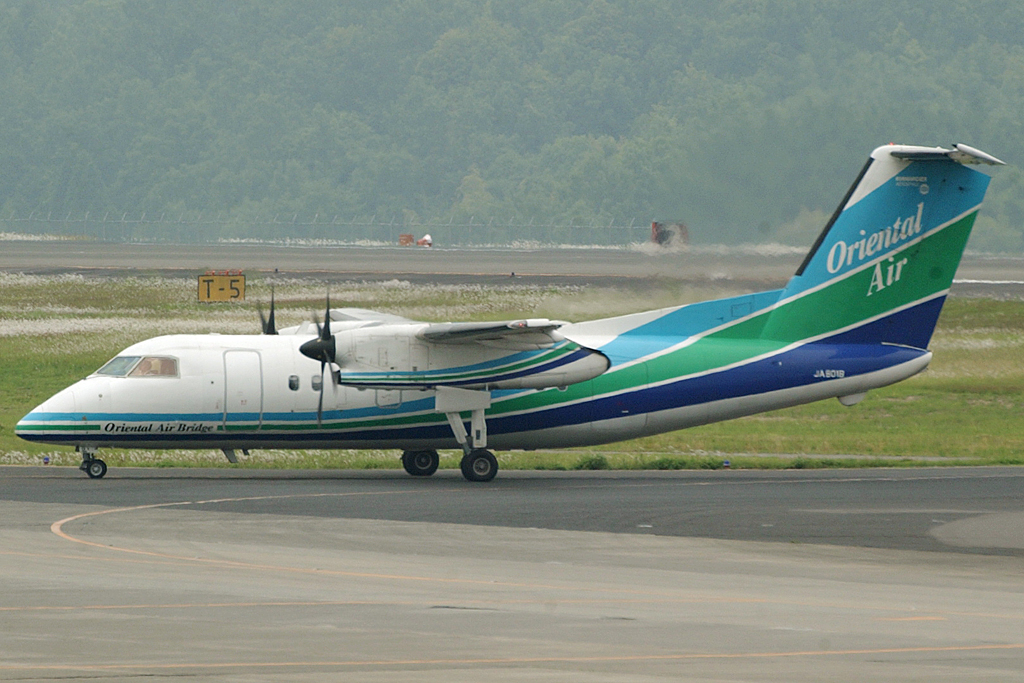 Another rarish aircraft from Japan. JA801B DHC-8-201 of Oriental Air Bridge at Kagoshima on May 22, 2003.